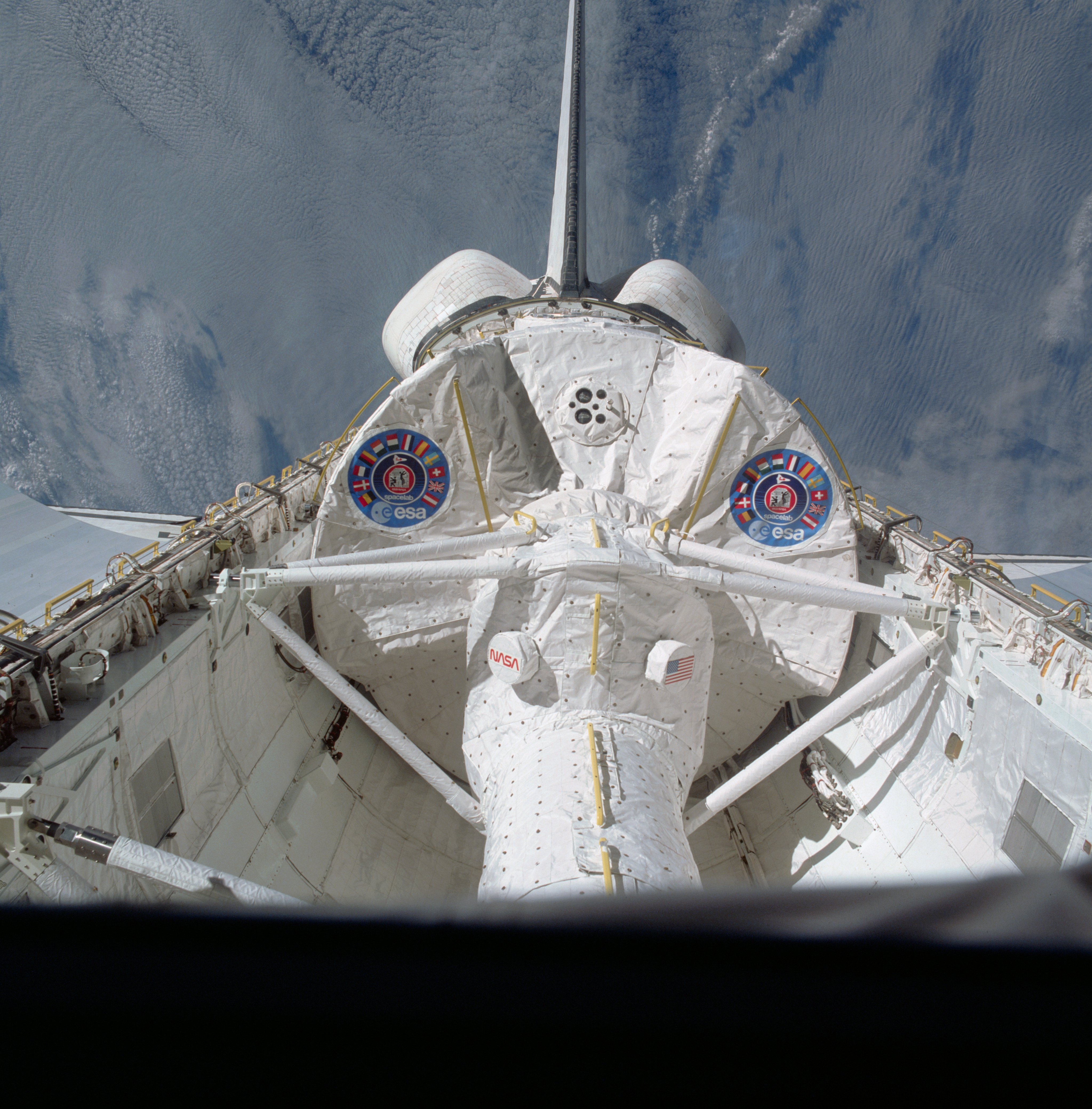 View of the Spacelab module in the payload bay of the Columbia during STS-9 View taken through aft window on the flight deck of the Spacelab module in the payload bay of the Columbia during STS-9. The docking tunnel, leading from the environment of the orbiter to the Spacelab, is in the foreground. European Space Agency insignias are visible on the sides of the Spacelab.